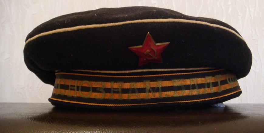 Гвардейская лента на краснофлотской фуражке